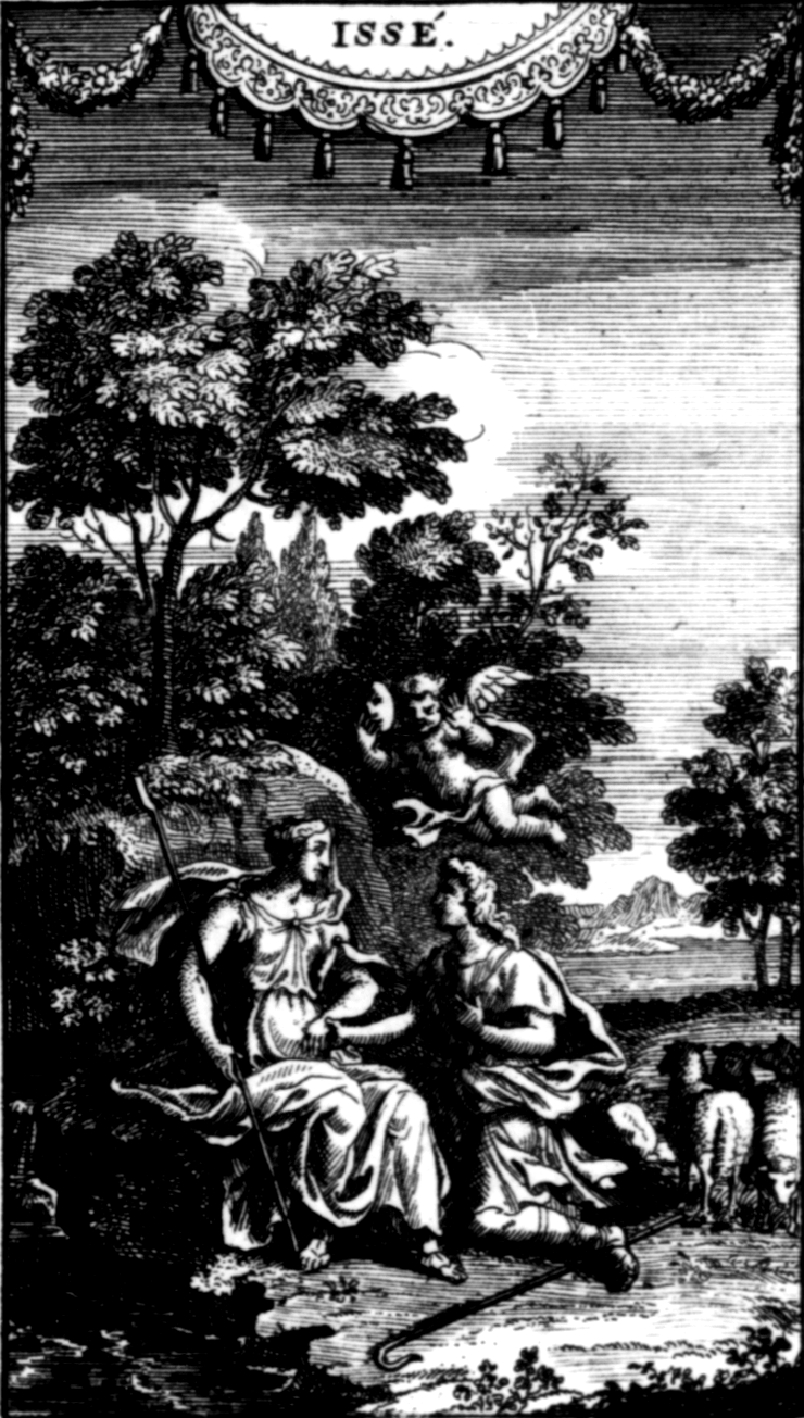 André Cardinal Destouches - Issé - F. Ertinger - picture from the libretto, Paris 1703